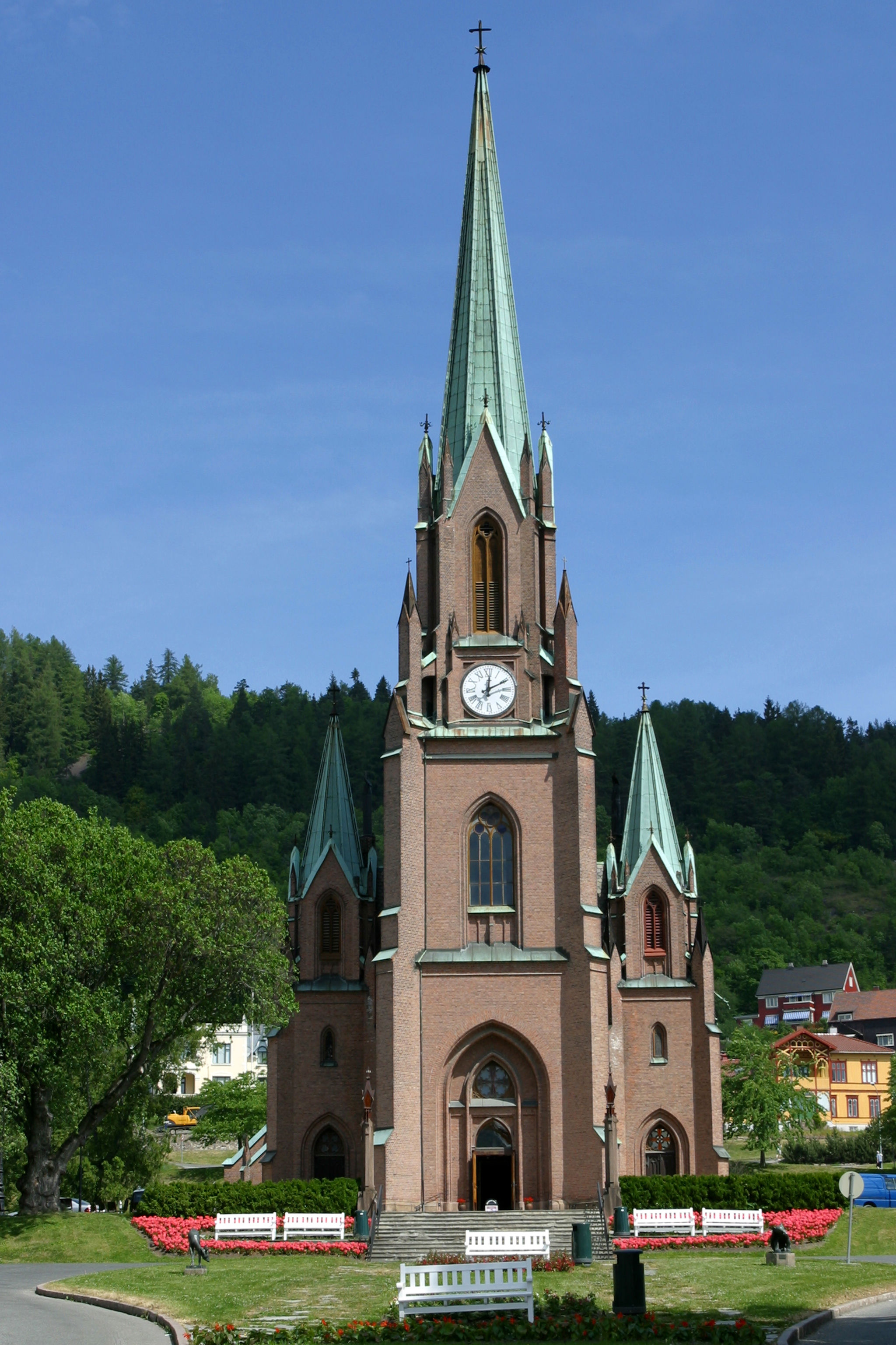 Picture of Bragernes church (Buskerud - Norway)